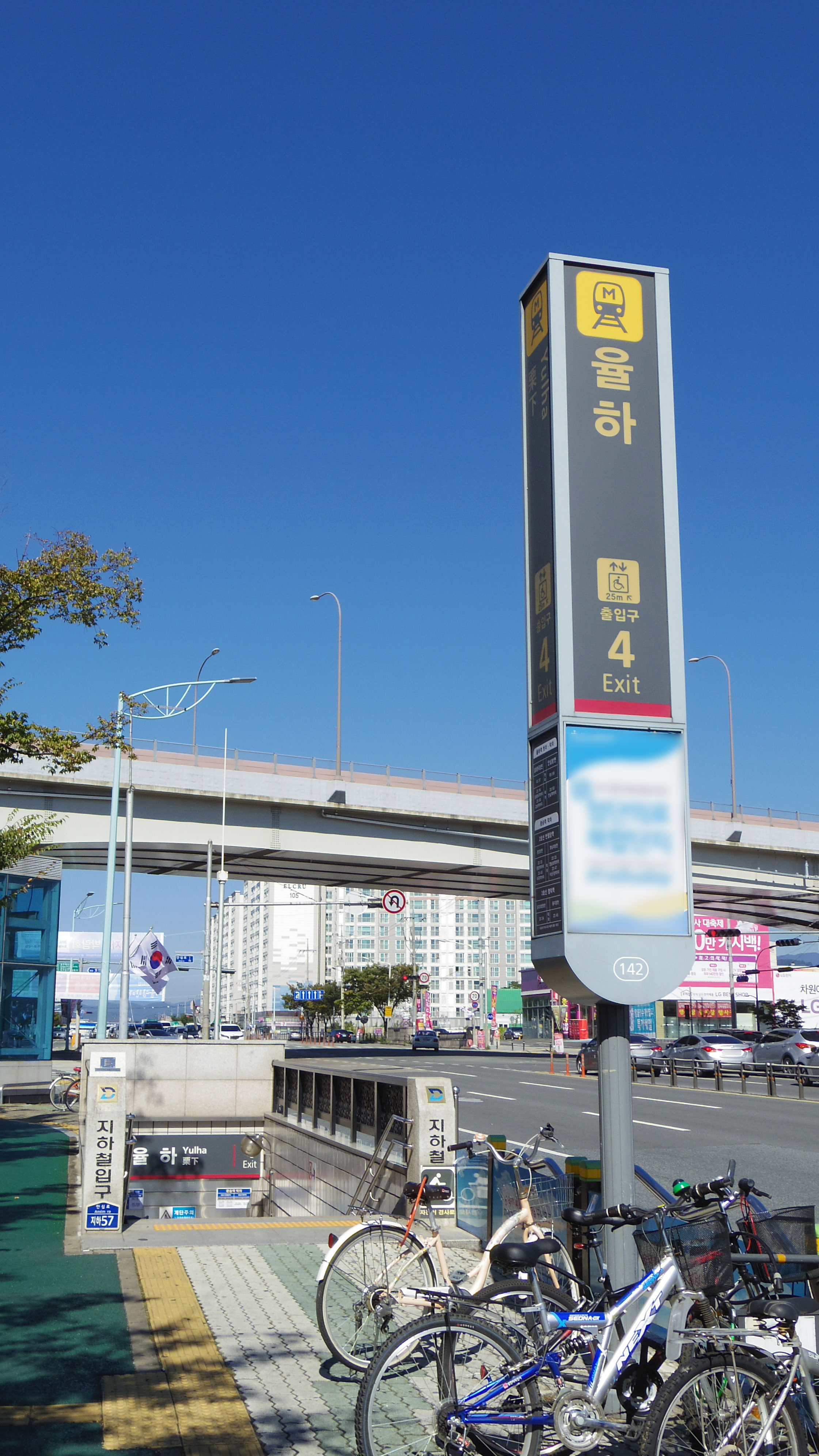 The entrance no.4 of Yulha Station on the Daegu Metro Line 1